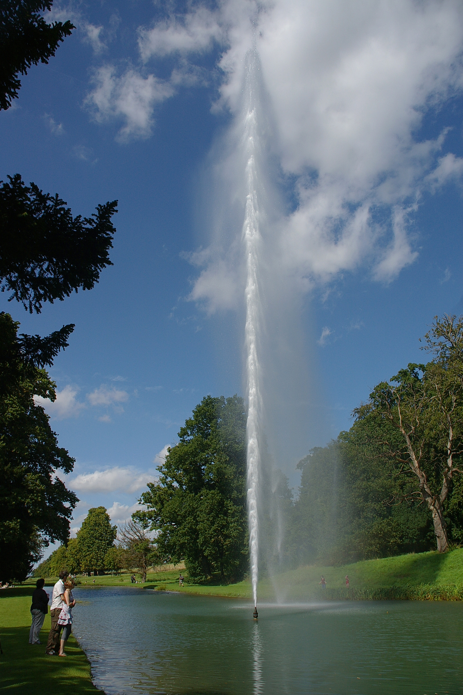 The Stanway Fountain in Gloucestershire.